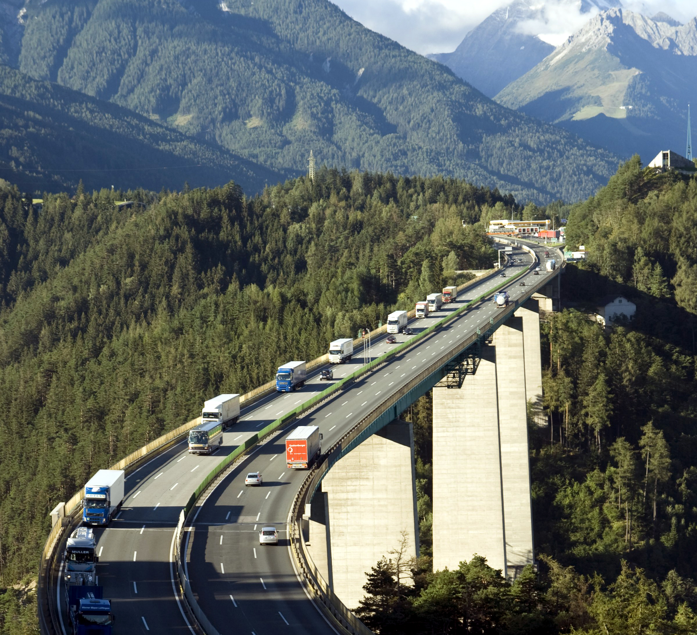 The A13 (Brenner Autobahn) is a relatively short stretch of autobahn (motorway) in Austria linking the city of Innsbruck in the region of Tyrol, to the Italian border where it becomes the A22. The Europabrücke or Europe’s bridge, is a 777-m (2,549.2 ft) long bridge spanning the 657-m (2,155.5 ft) Wipp valley just south of Innsbruck, Austria. The A13 passes over this bridge, above the Sill River, forming part of the main route from Austria to Italy across the Alps. Built between 1959 and 1963, it was once Europe’s highest bridge, standing 192 m (629.9 ft) high.